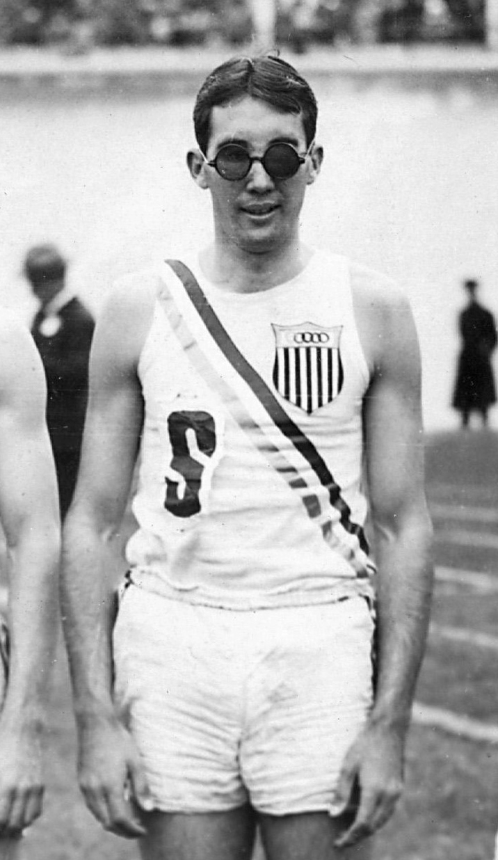 Emerson "bud" Spencer, US olympic champion